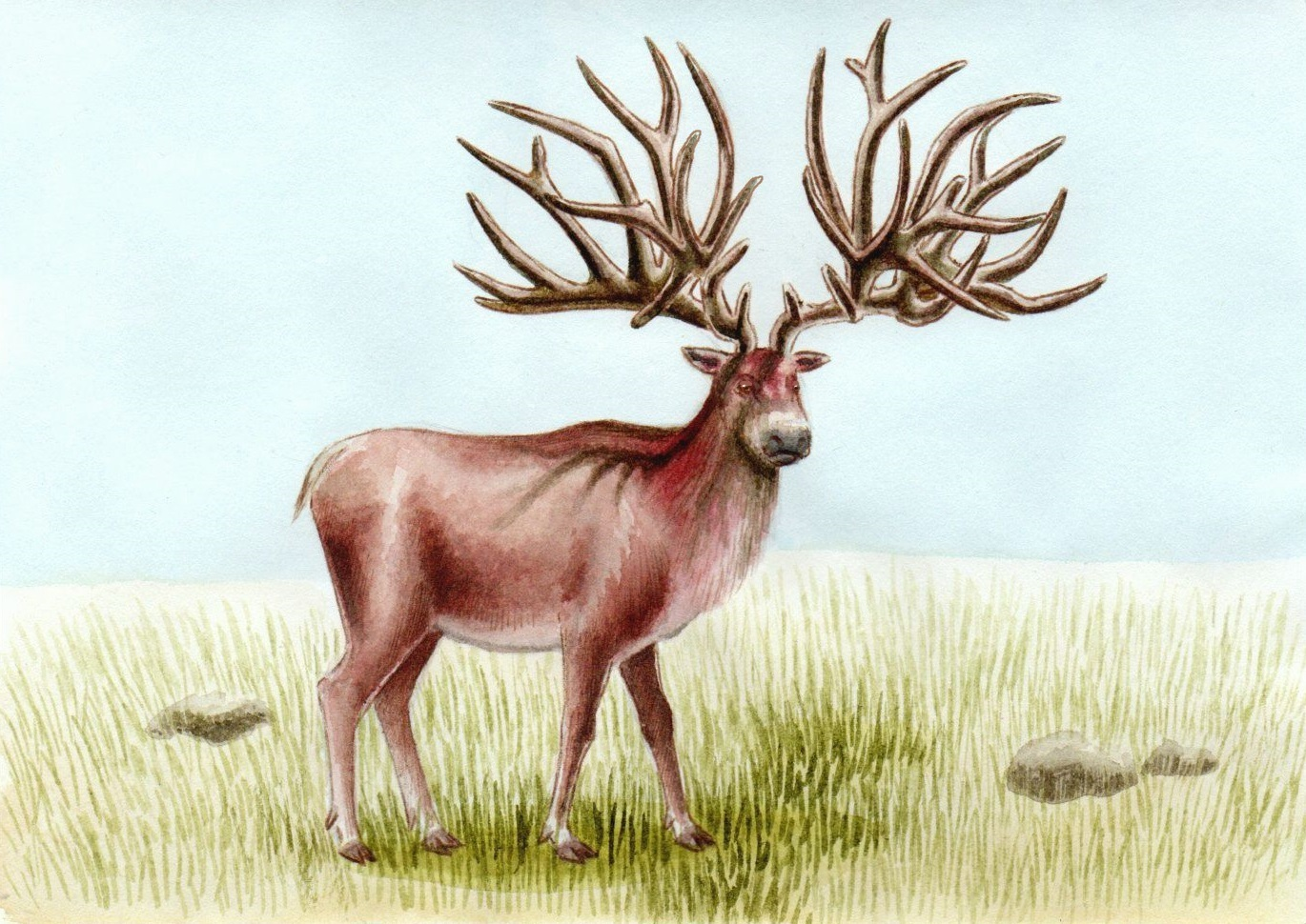 A recreation of the extinct mammal Eucladoceros